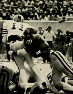 Photograph of West Virginia University football player Darryl Talley (right).